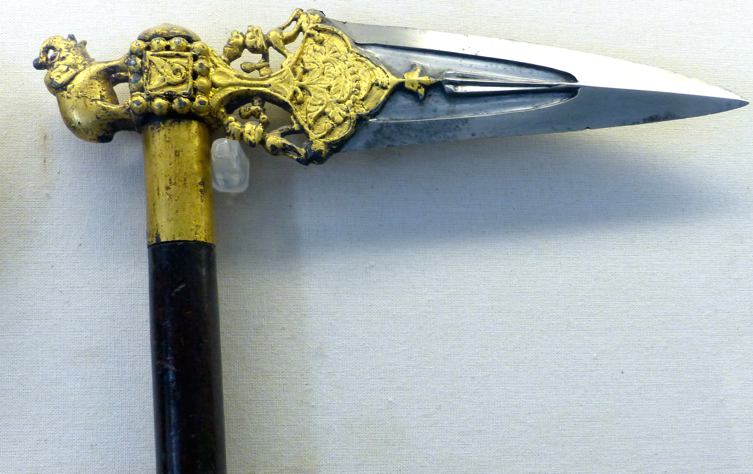 Jodhpur ( Rajastan / India ). Meranghar Fort Museum - Battle axe